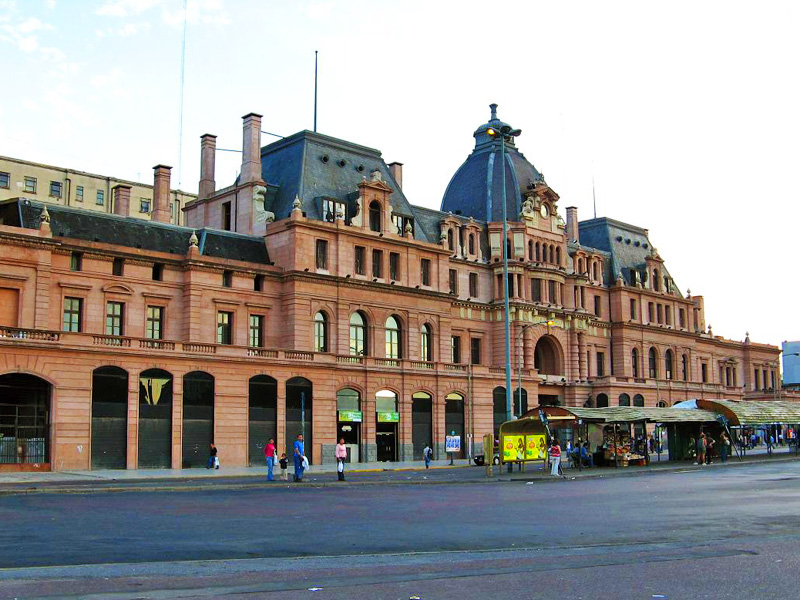 Plaza Constitución Train Station